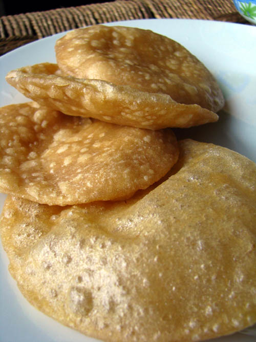 A deep-fried flatbread made of wheat flour that is typical of Oriya, Assamese and Bengali cuisine